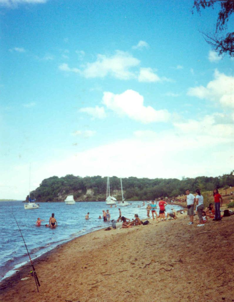 The Uruguay River, viewed from the city of Colón, on the east of the province of Entre Ríos, Argentina. I, Pablo D. Flores, took this picture myself in April 2003.